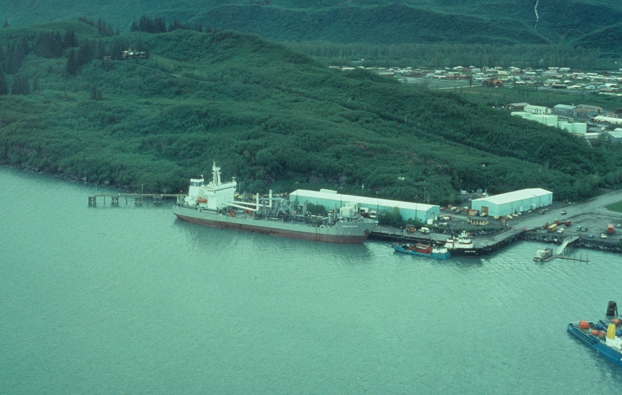 Blueberry Hill and marine facilities in Valdez, Alaska as it appeared in 1989. There has been quite a bit more development of the area shown since this photo was taken. The hill was originally called Meals Hill, after Valdez businessman Owen Meals, who owned much of the surrounding area prior to the moving of the Valdez townsite following the 1964 Alaska earthquake. The building located atop the hill may be the Meals residence, but I'm not entirely certain of that.